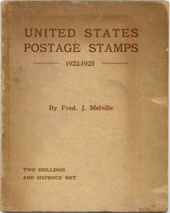 Melville, Fred J. - United States Postage Stamps 1922-1925 Publisher The Philatelic Institute, London, 1925.